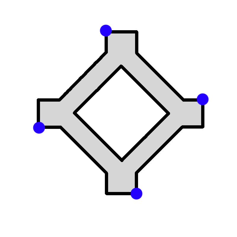 Strazari cuvaju tvdrjavu